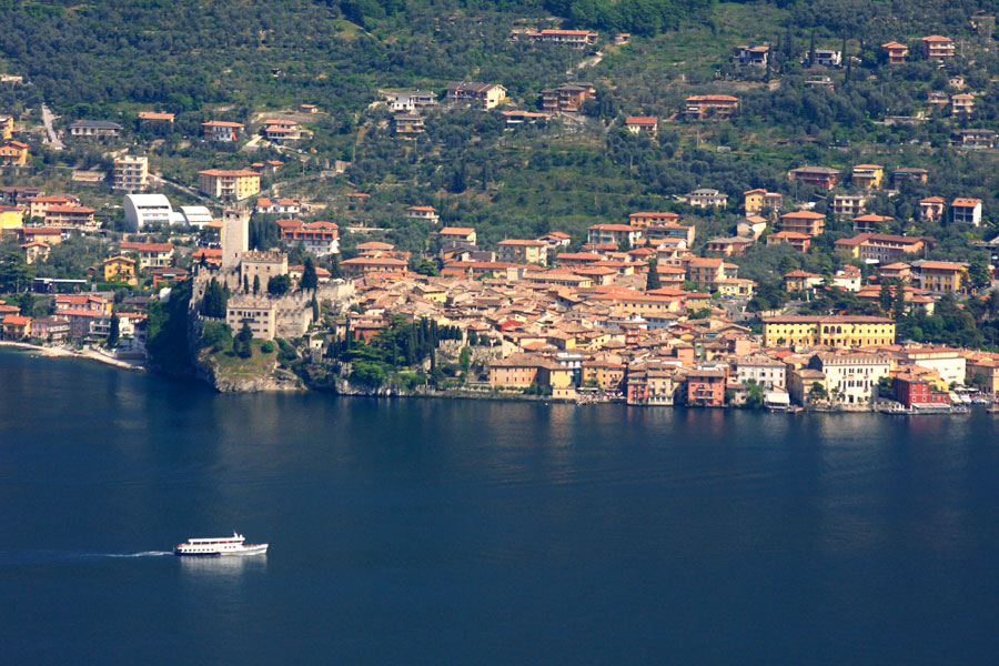 Panorama of Malcesine (VR)